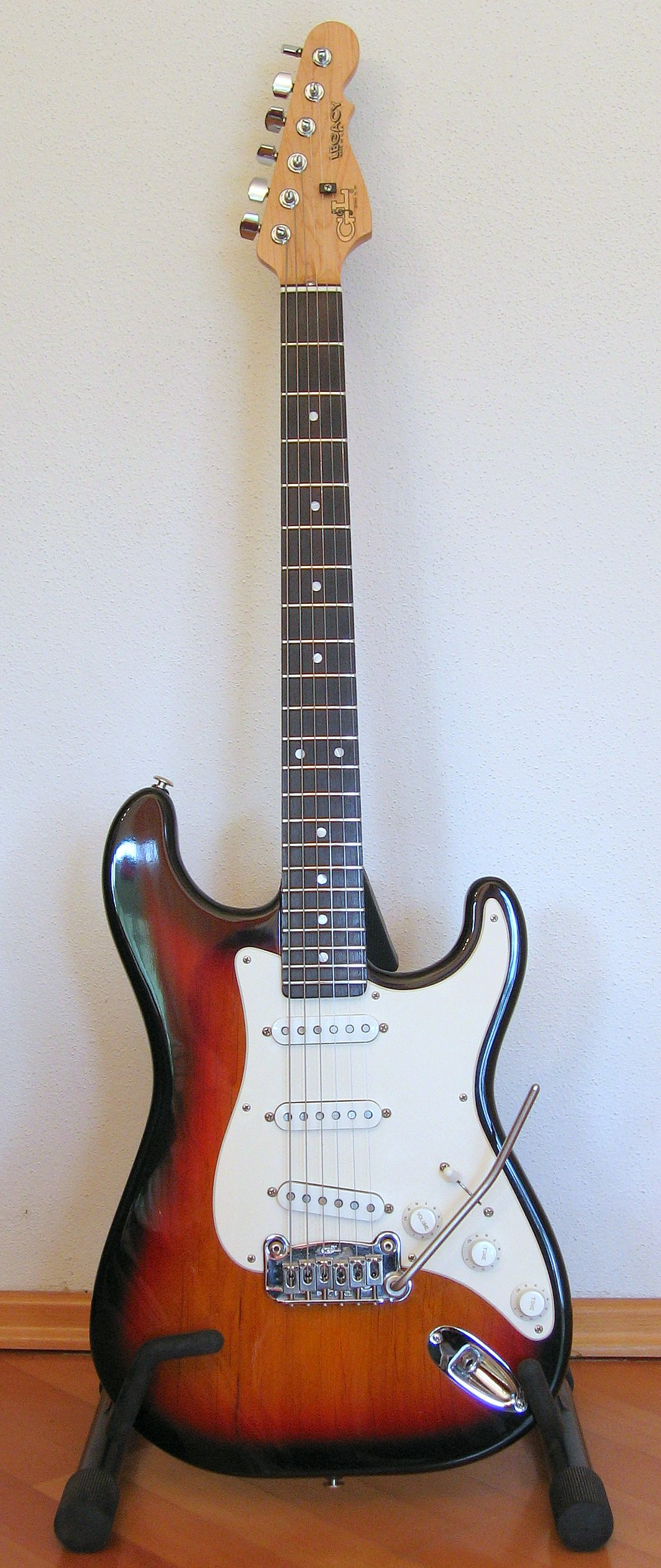 G&L Legacy in 3-Tone Sunburst finish, built in the USA in 1994